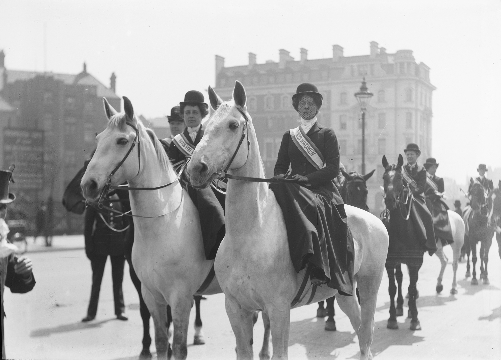 Photographs by Christina Broom who died in 1939. See file name for subject.